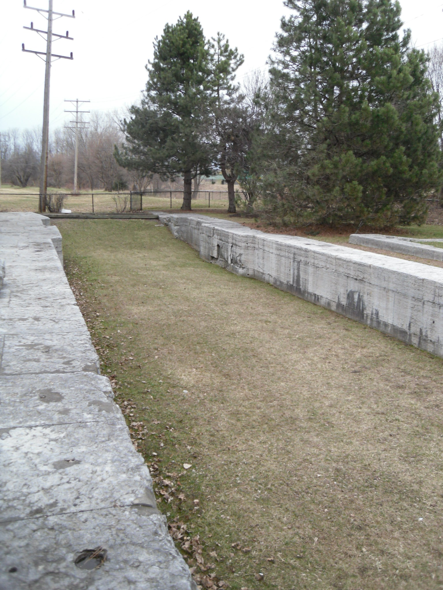 Maplewood Historic Park in the Town of Colonie, north of the village of Watervliet, New York. Image shows the remains of the weighlock. This is Not the Watervliet Side cut.